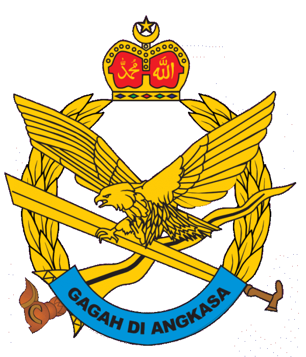 The official crest of Malaysian Army Aviation or Pasukan Udara Tentera Darat (PUTD) in Malay.